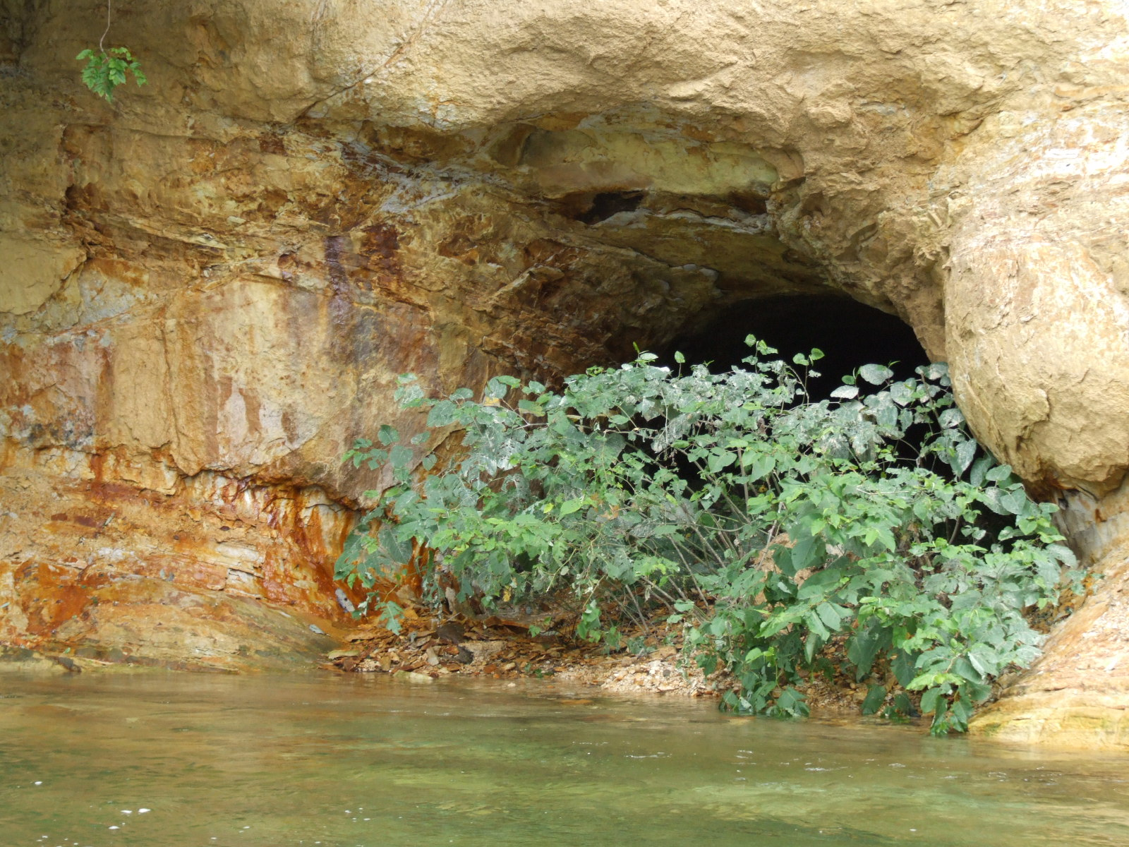 Kanoiwa. A hole or tunnel on the side of the Hirose River. Sendai, Miyagi prefecture, Japan.